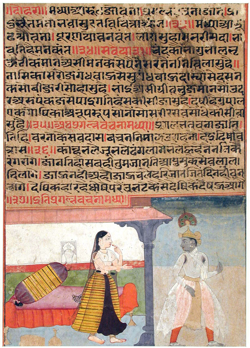 Series Title: Connoisseur's Delight Creation Date: ca. 1625 Display Dimensions: 9 11/32 in. x 6 5/32 in. (23.7 cm x 15.6 cm) Credit Line: Edwin Binney 3rd Collection Accession Number: 1990.343 Collection: The San Diego Museum of Art